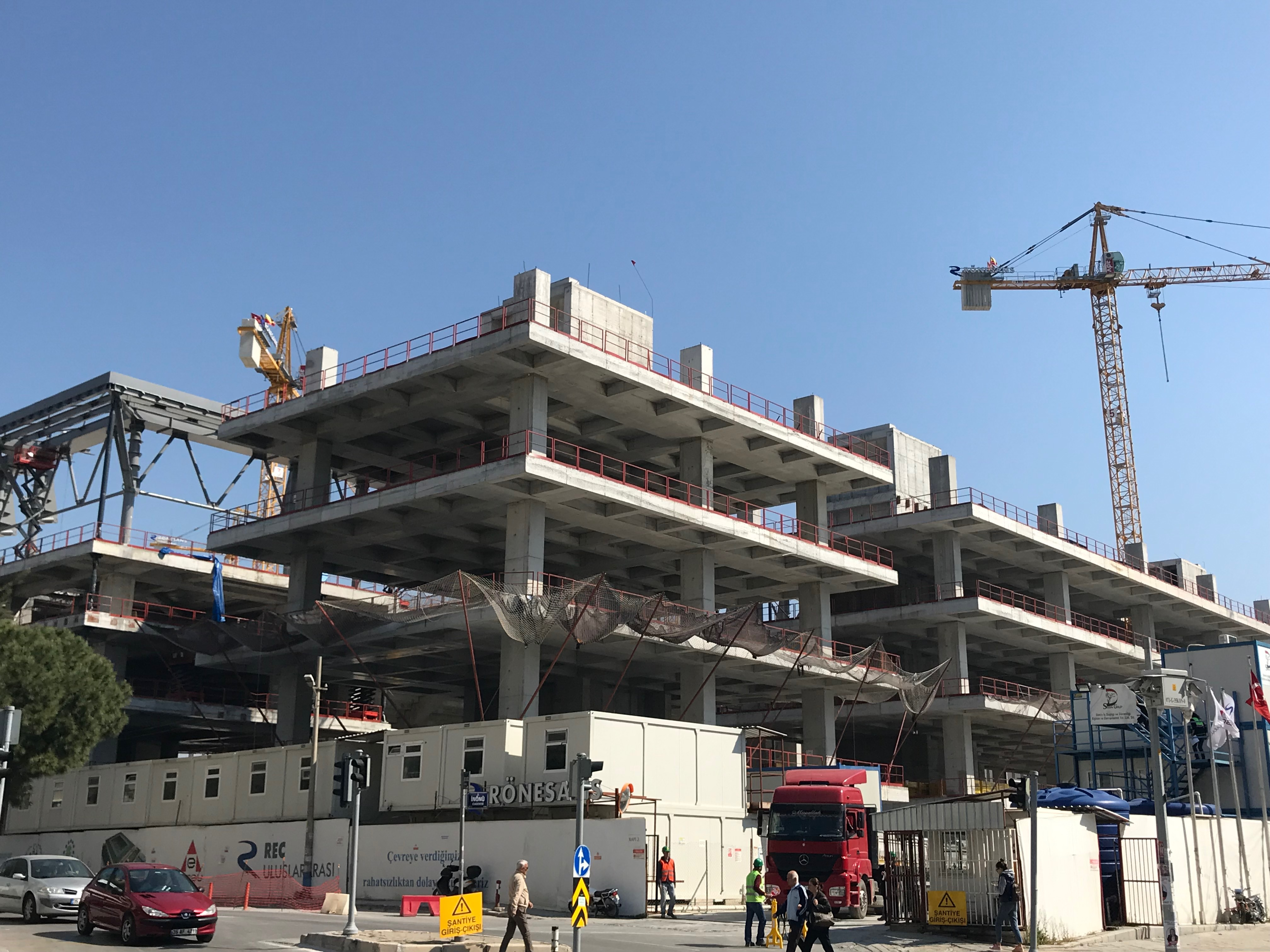 Göztepe Stadium under construction in March 2019.